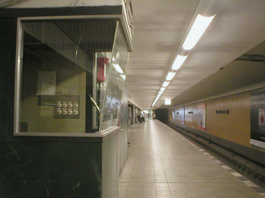 Ullsteinstraße underground station, Berlin, Germany